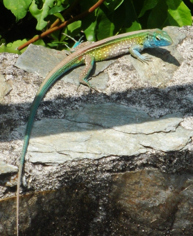 Cnemidophorus lemniscatus (Rainbow Whiptail), Tayrona National Natural Park, Magdalena Department, Colombia